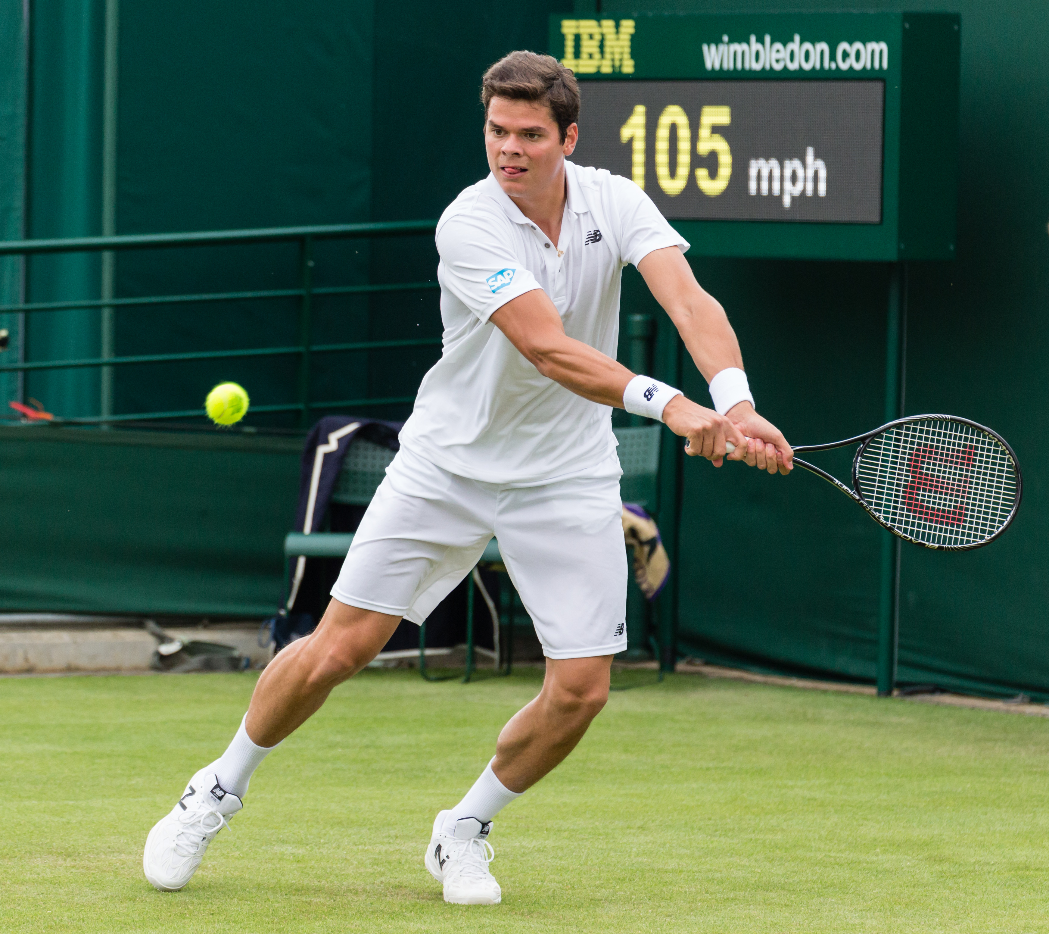 Milos Raonic at the 2013 Wimbledon Championship.